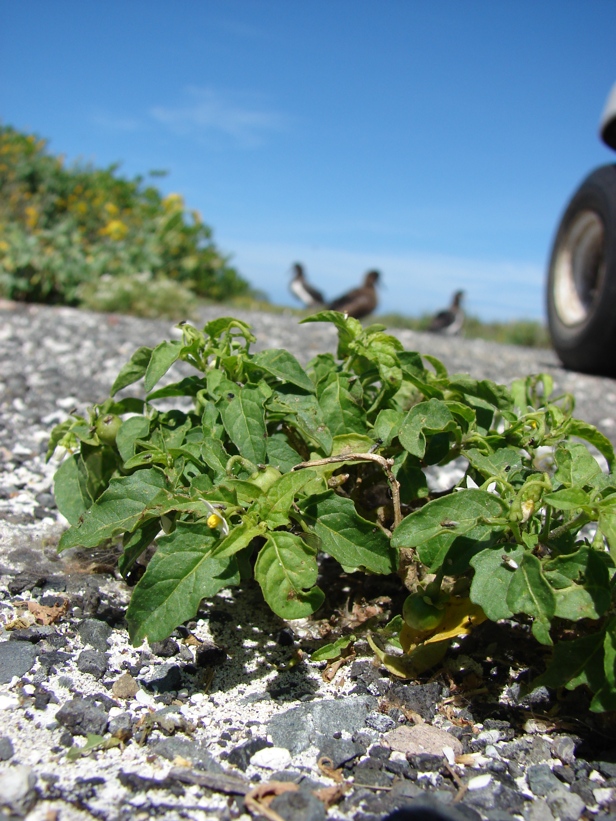 Solanum americanum (flowering habit). Location: Midway Atoll, South Beach Sand Island